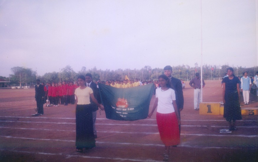 Prepping to furl the School flag at the Valedictory part of Annual Sports day.